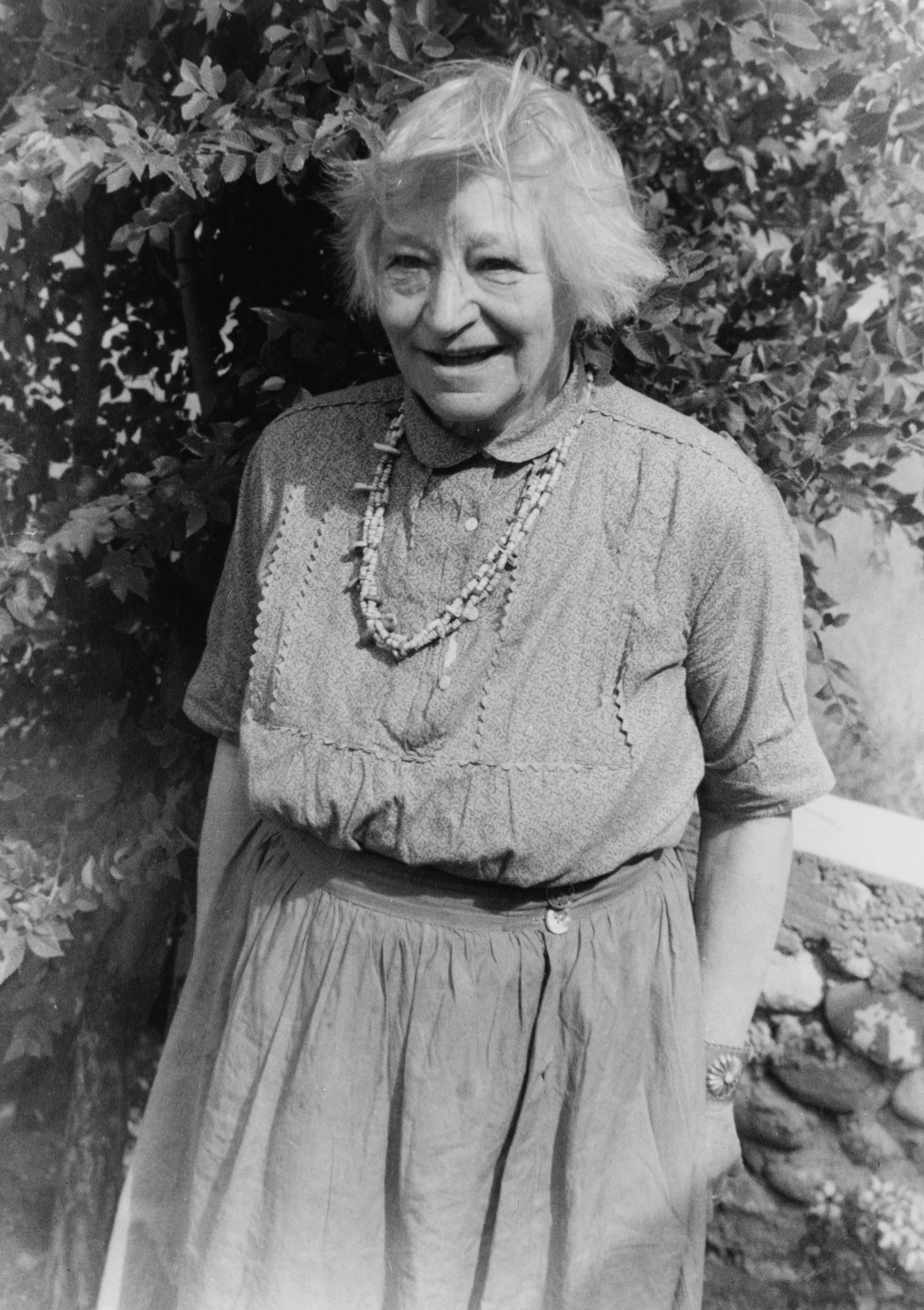 Title: Portrait of Frieda Lawrence, Taos, N.M. Abstract/medium: 1 photographic print : gelatin silver.